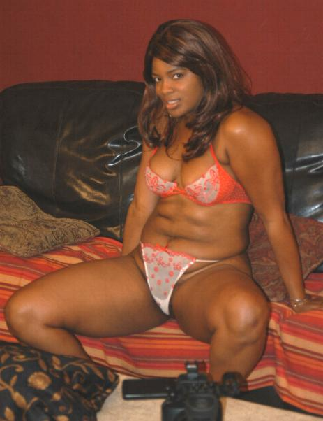 March 20, 2007: Shoots